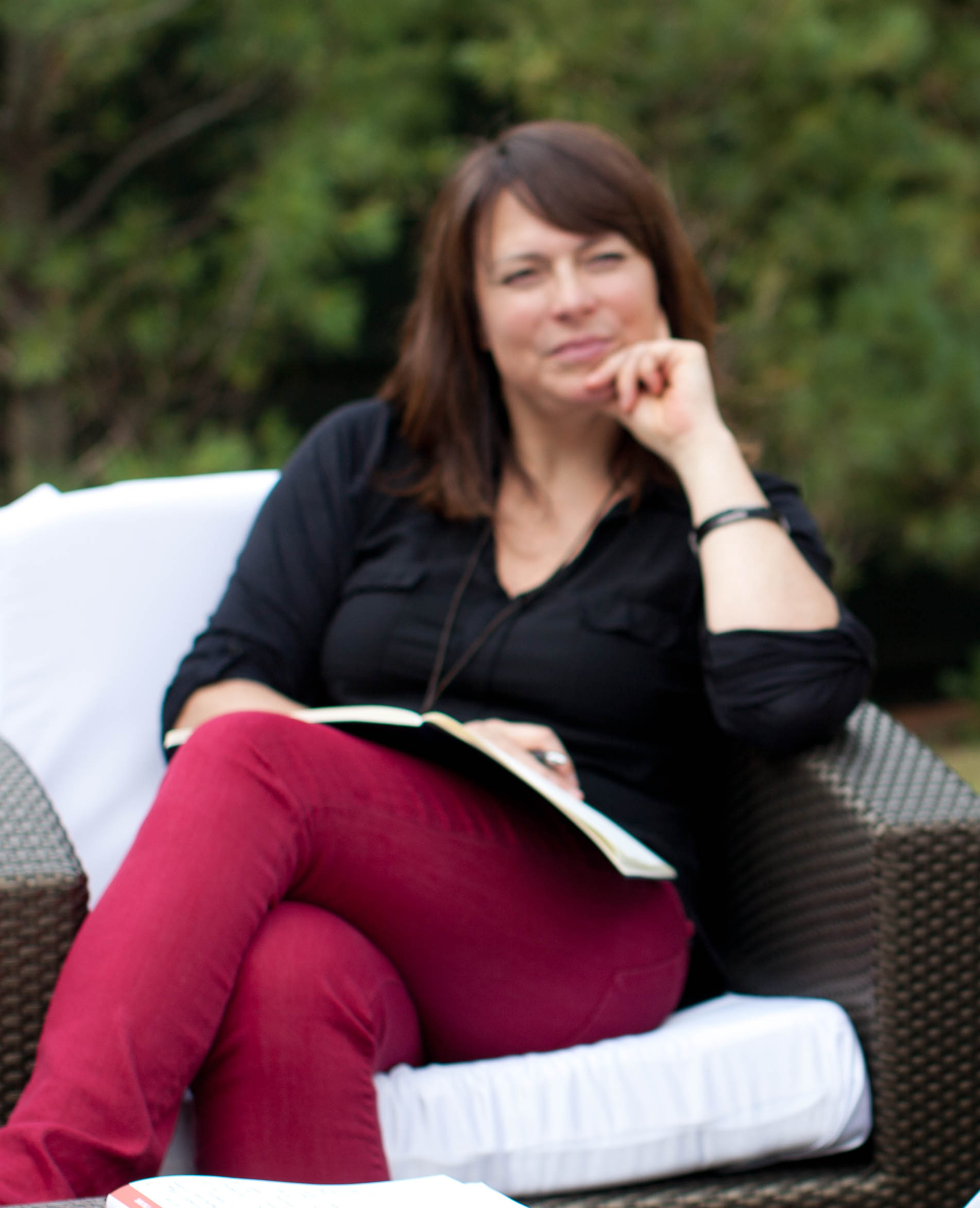 Pattie Maes and Hiroshi Ishii